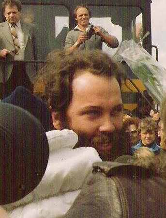 Flemish weightlifter Walter Arfeuille when he is pulling a train in with his teeth